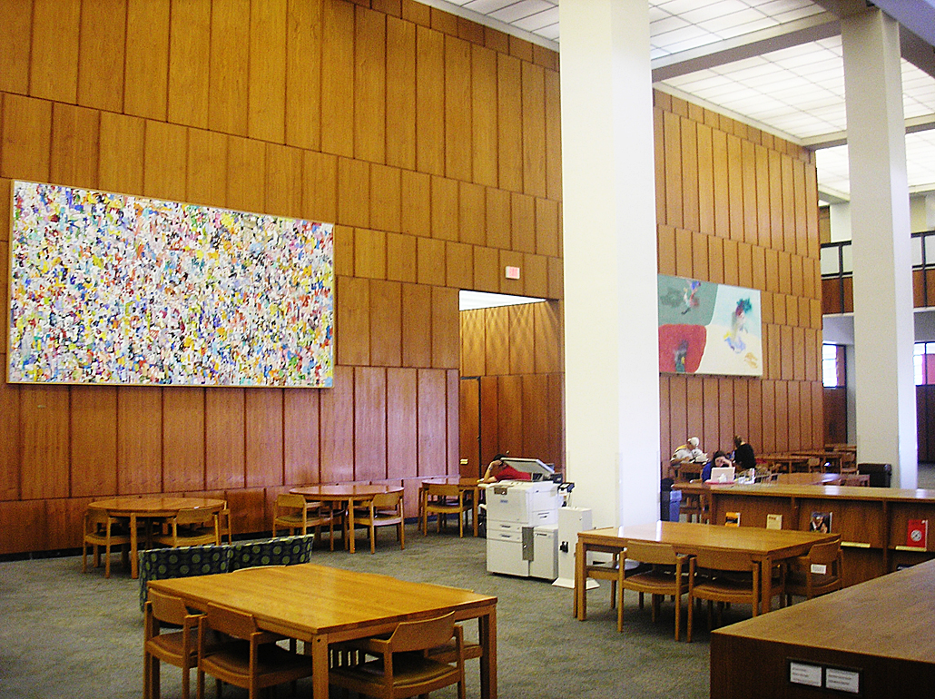 Study area on the first floor of Hillman Library at the University of Pittsburgh